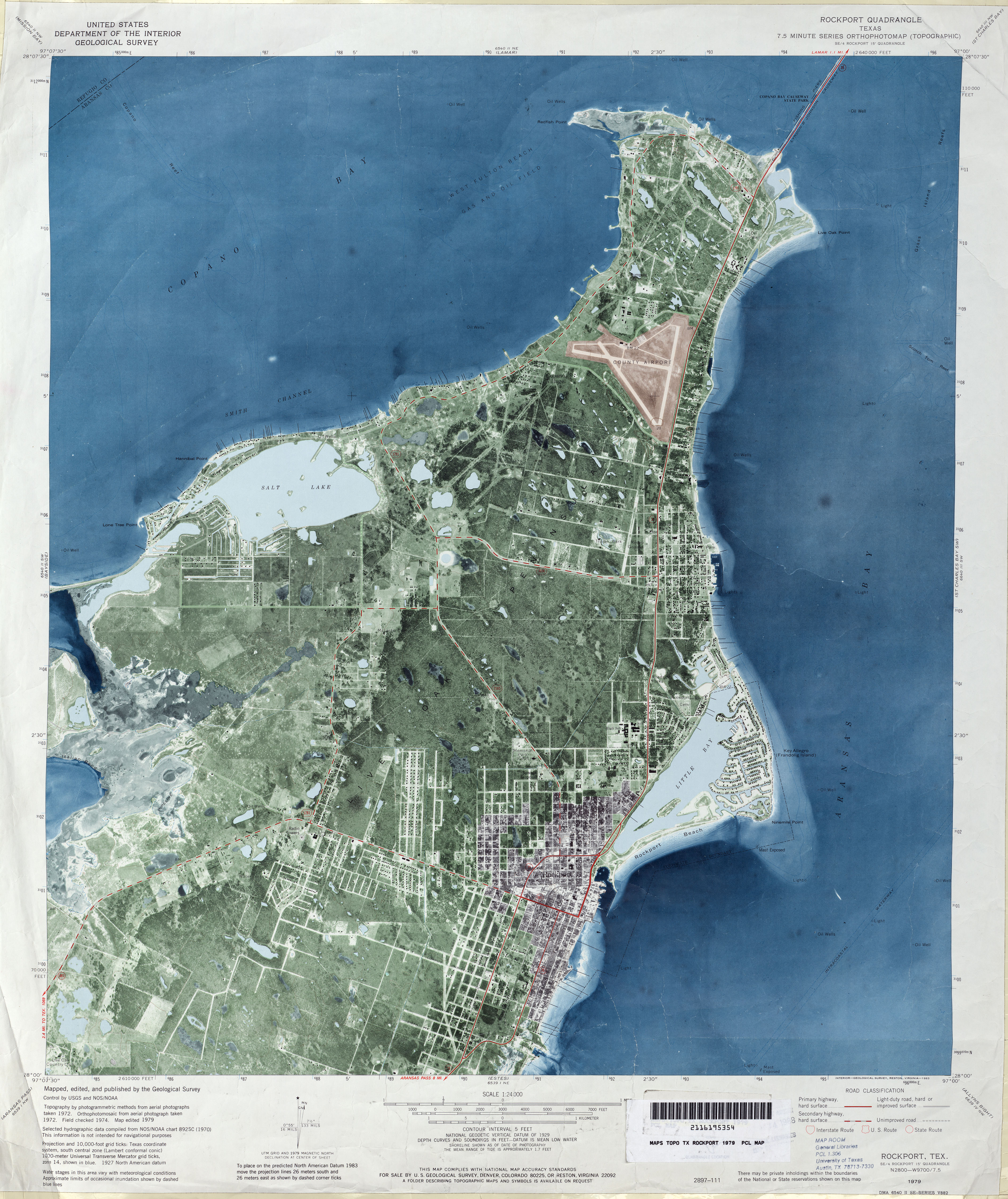 Rockport, Texas, 7.5 Minute Series Orthophotomap